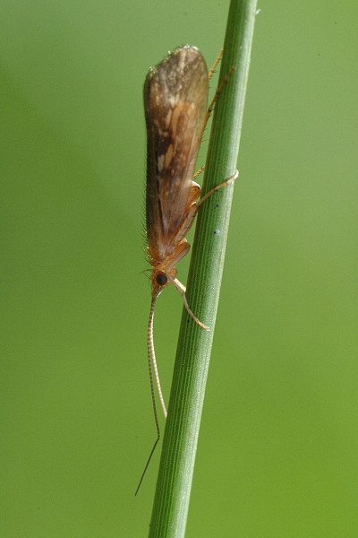 Picture taken in Commanster, Belgian High Ardennes . Species: Limnephilus lunatus